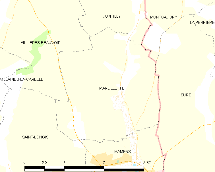 Map of French municipality